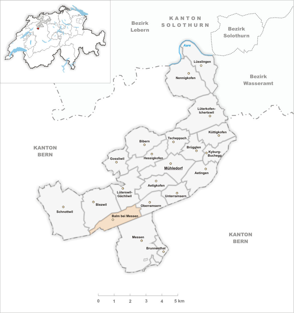 Municipality Balm bei Messen